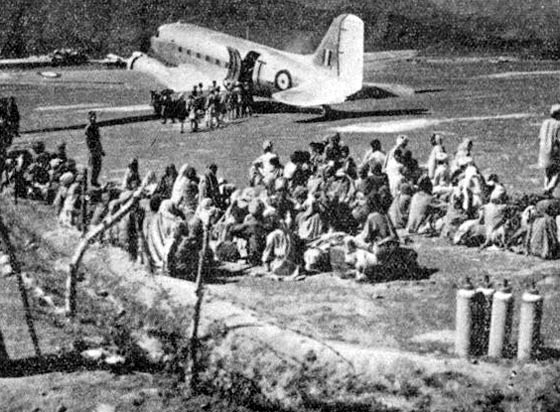 Dakotas seen on Poonch airfield, December 1947, during the Indo-Pakistani War 1947.